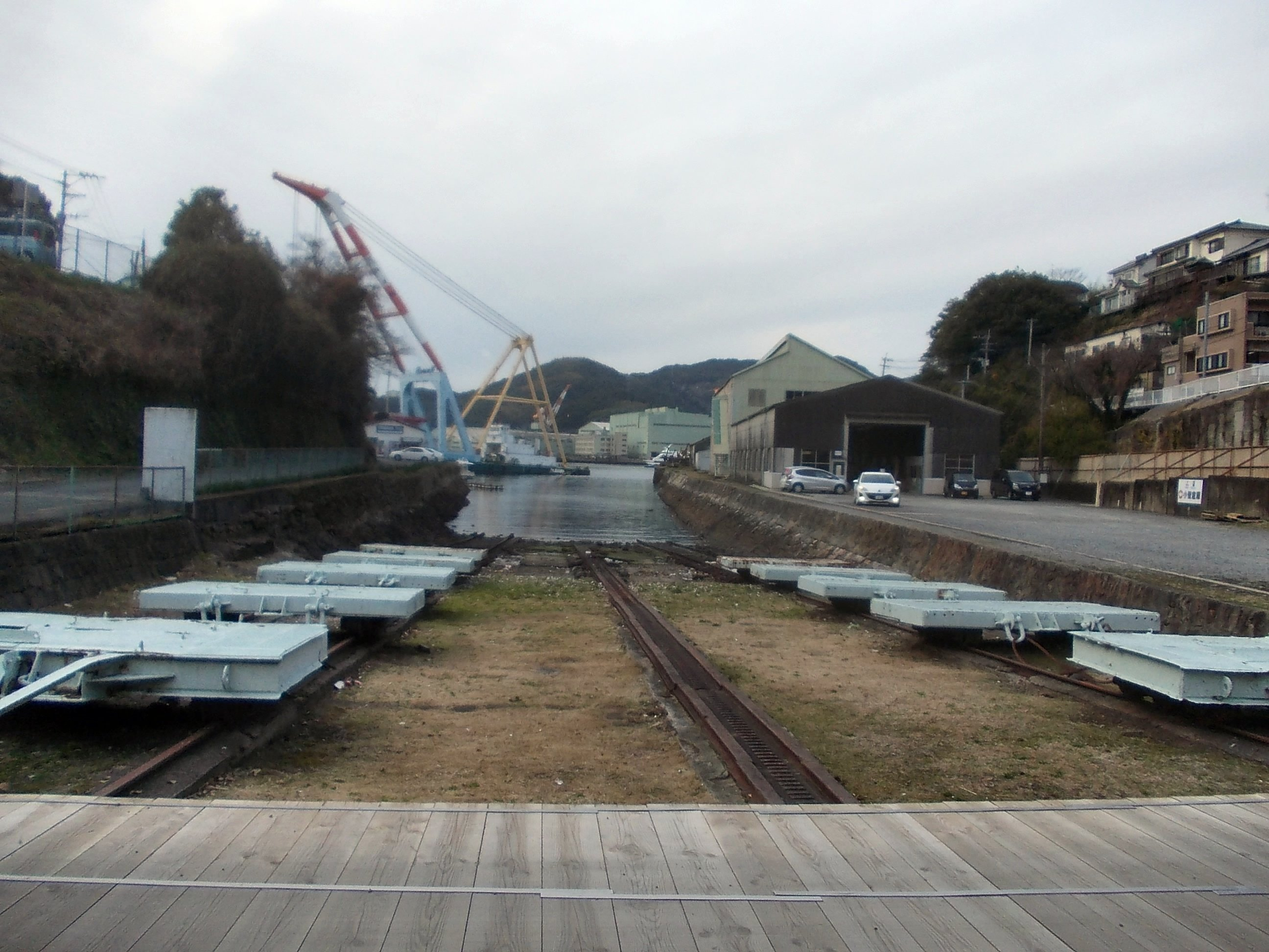 Site of Kosuge Ship Repair Dock in Nagasaki, Nagasaki, Japan